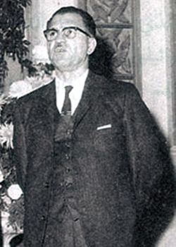 Iraqi former Prime-Minister Abdel-Rahman Al-Bazzaz